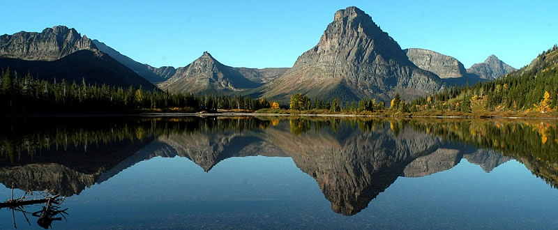 Glacier National Park, Montana, USA. Two Medicine Lake original caption:Before the Going-to-the-Sun Road was constructed, Two Medicine was a very popular destination for travelers by train. It was a busy location filled with anticipation from eager visitors ready to experience life in the mountains. A system of backcountry chalets built by the Great Northern Railway allowed these adventurous visitors to live in Glacier's wild interior as they traveled by horseback. Today, Two Medicine is a pretty quiet location, but its lure for backcountry adventurers remains intact. Only two backcountry chalets remain nestled high in Glacier's mountains, and only one chalet in Two Medicine, which now serves as the Campstore, but the rugged landscape that the Blackfeet Indians refer to as "The Backbone of the World" still beckons the call for exploration. The Blackfeet continue to use this area for fasting and praying, and people of all backgrounds come to Two Medicine in search of discovery. As you prepare yourself for this trip, ask yourself, what are you ready to discover?